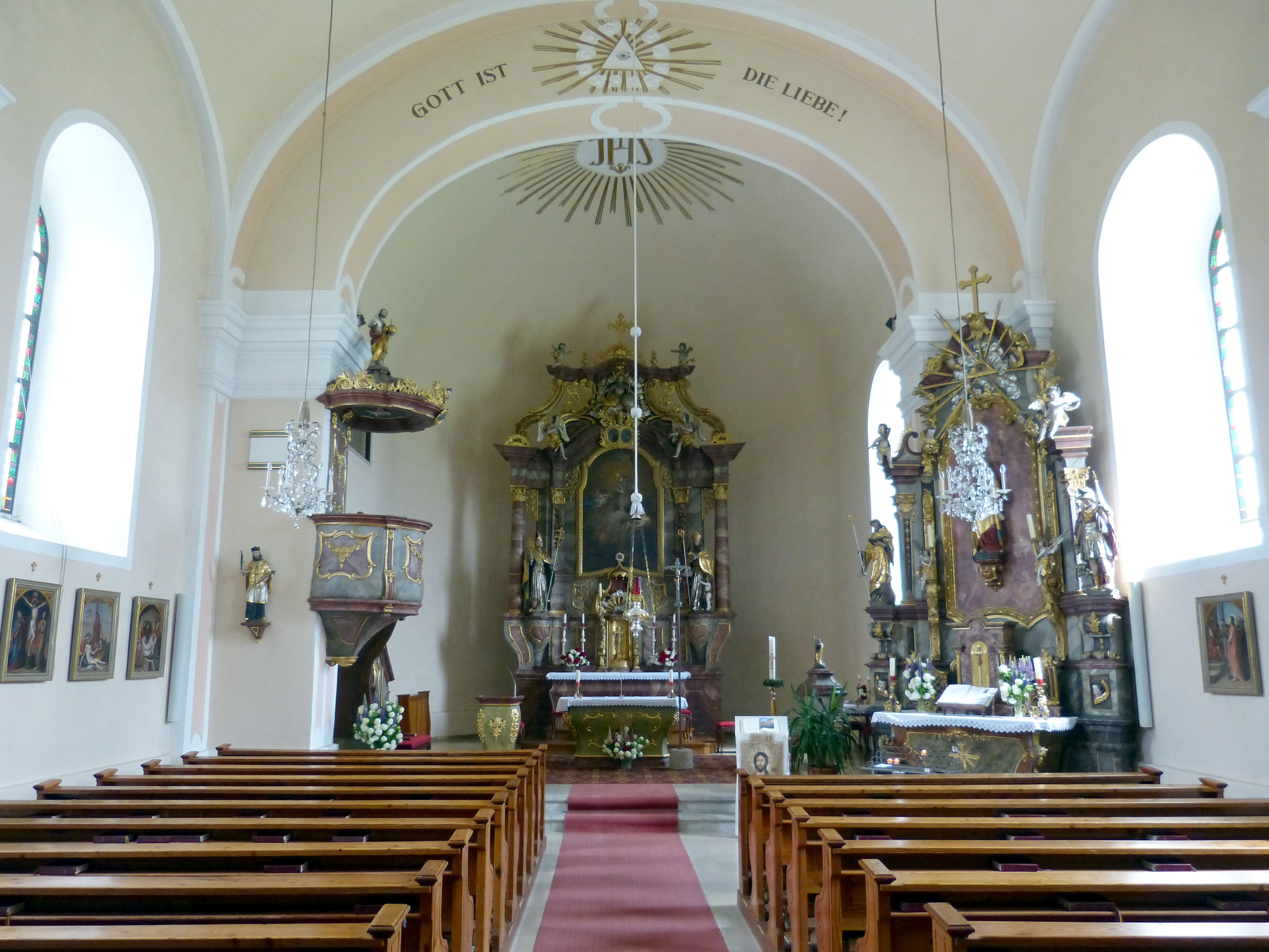 Schwarzenberg am Böhmerwald ( Upper Austria ). Saint John of Nepomuk parish church ( 1786 ): Interior.